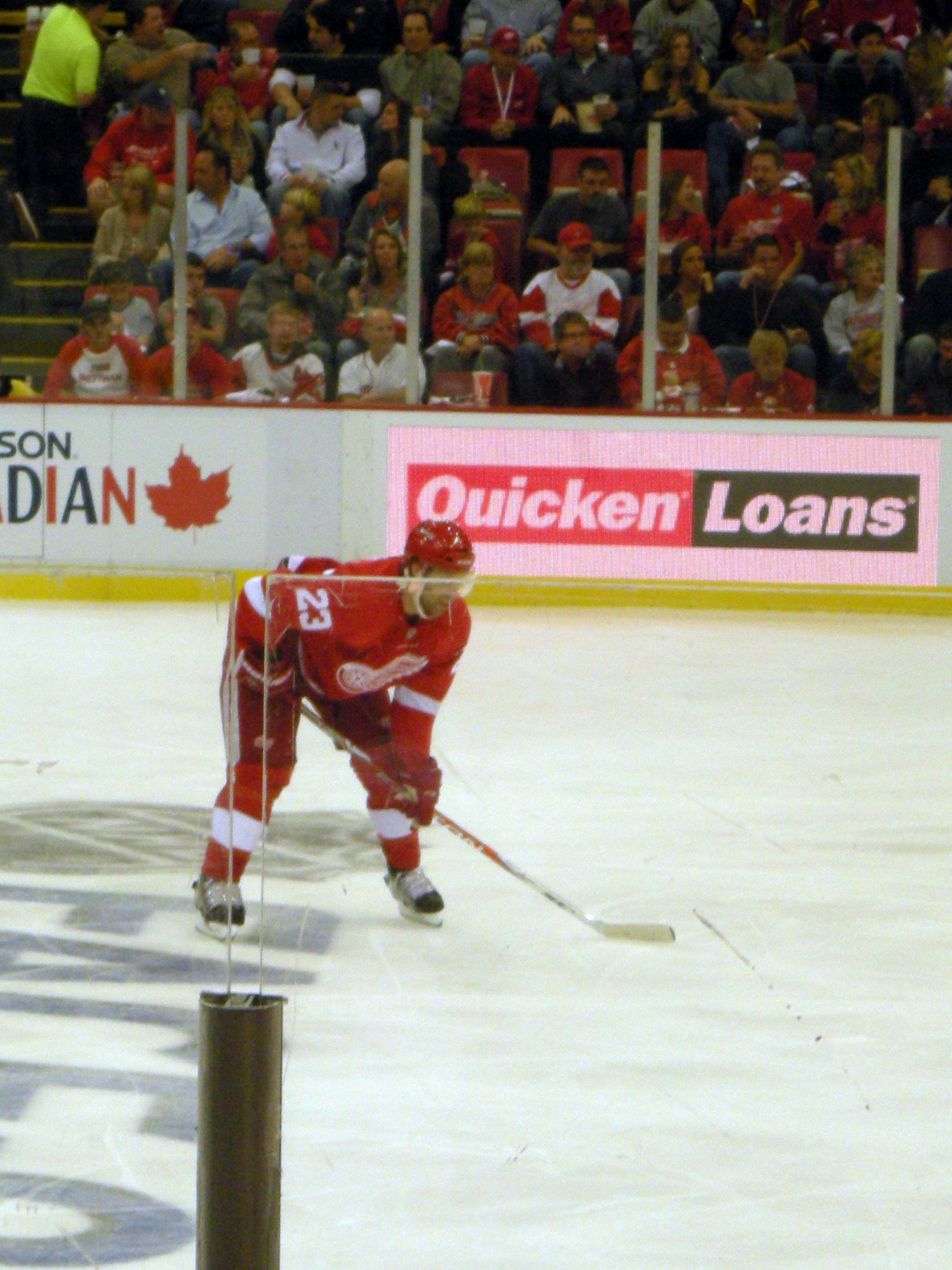 Brad Stuart during the Anaheim Ducks vs. Detroit Red Wings ice hockey game at Joe Louis Arena in Detroit, Michigan (United States). Detroit won 4–0.